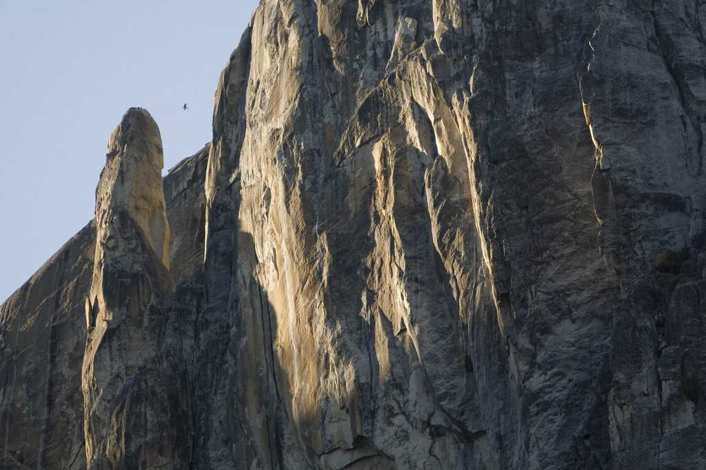 Slackline to Lost Arrow Spire